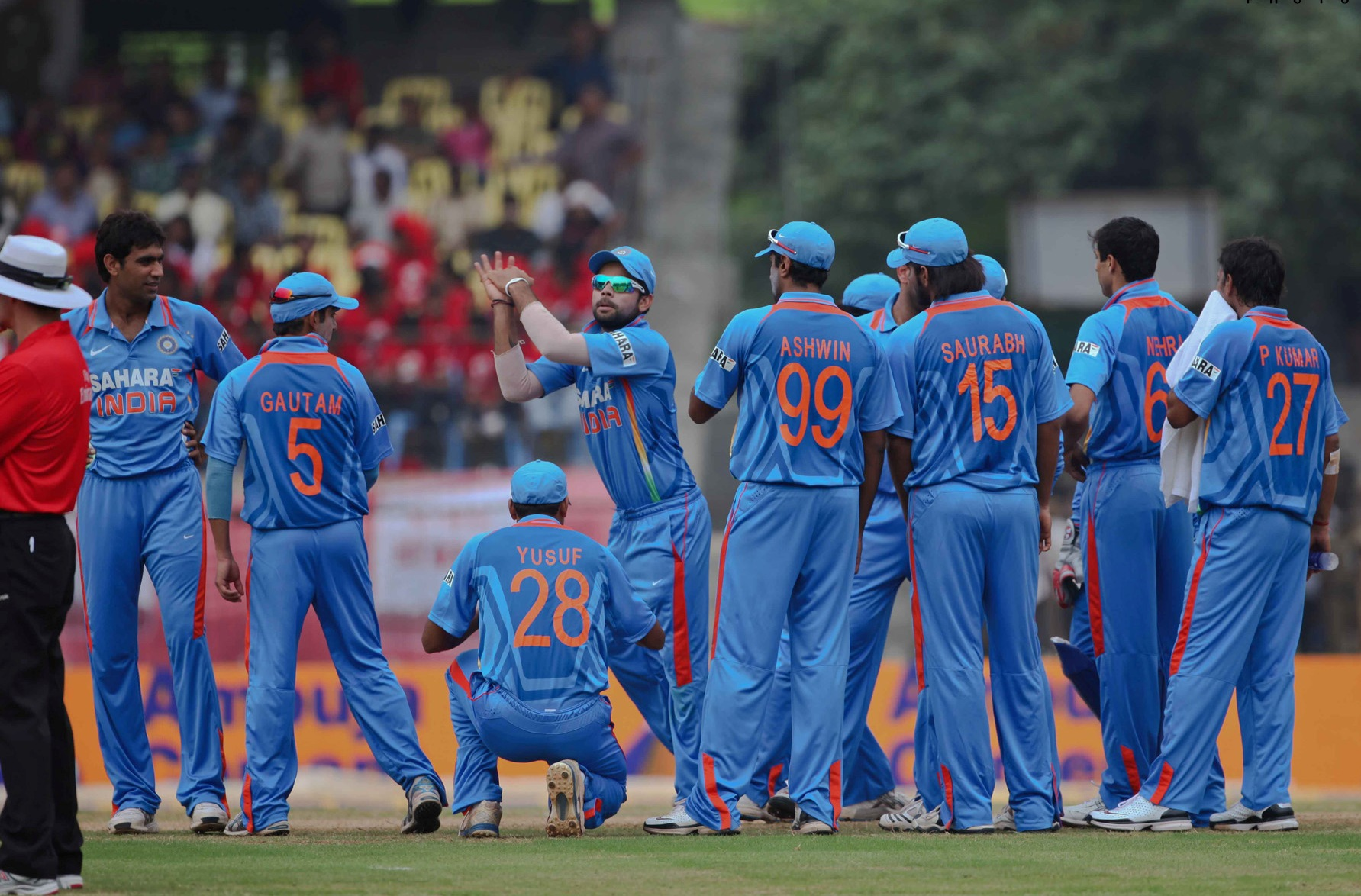 Indian Cricket Player